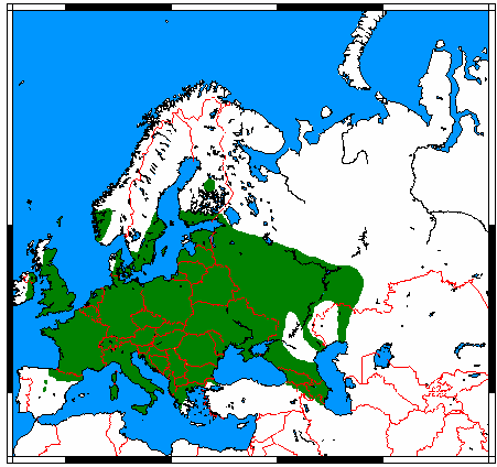 Range map for Nathusius's Pipistrelle (Pipistrellus nathusii), made by me with help of Map depending on the range map at IUCN red list.